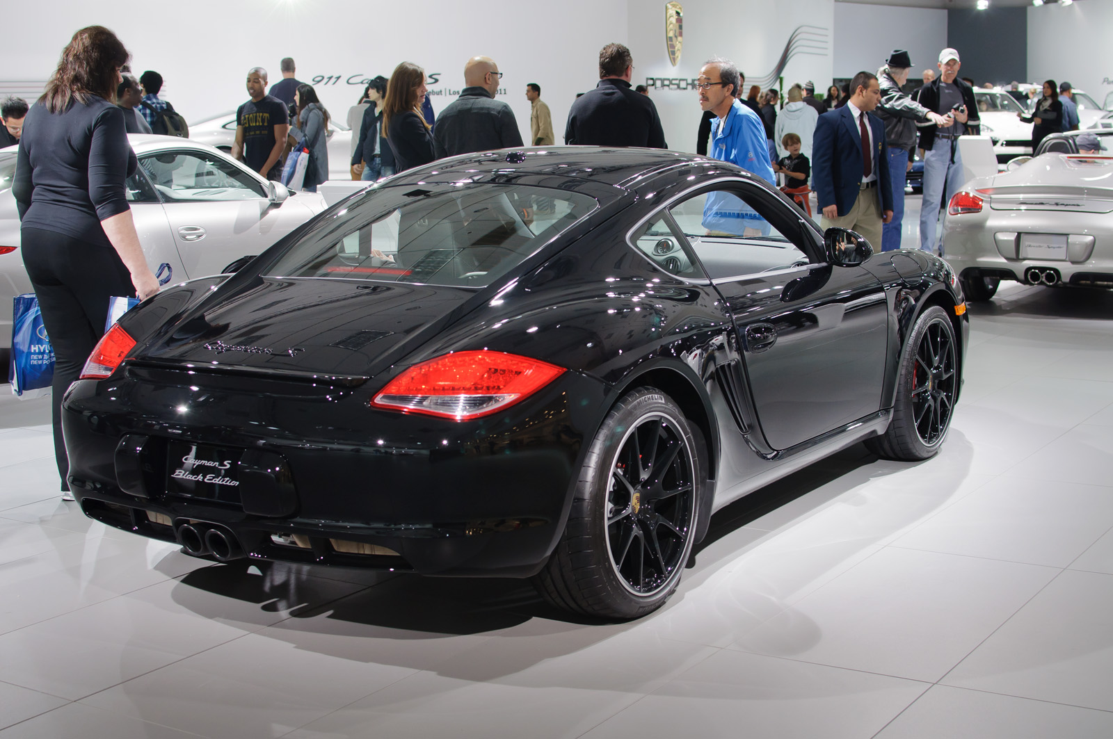 This example is priced at $76,960, and the starting price for a Cayman S is $67,500. Certainly not cheap, though bargain by Porsche standards. And unlike the rear-engined 911, the Cayman is mid-engined and easier to drive. Seen at Los Angeles International Auto Show, 2011.